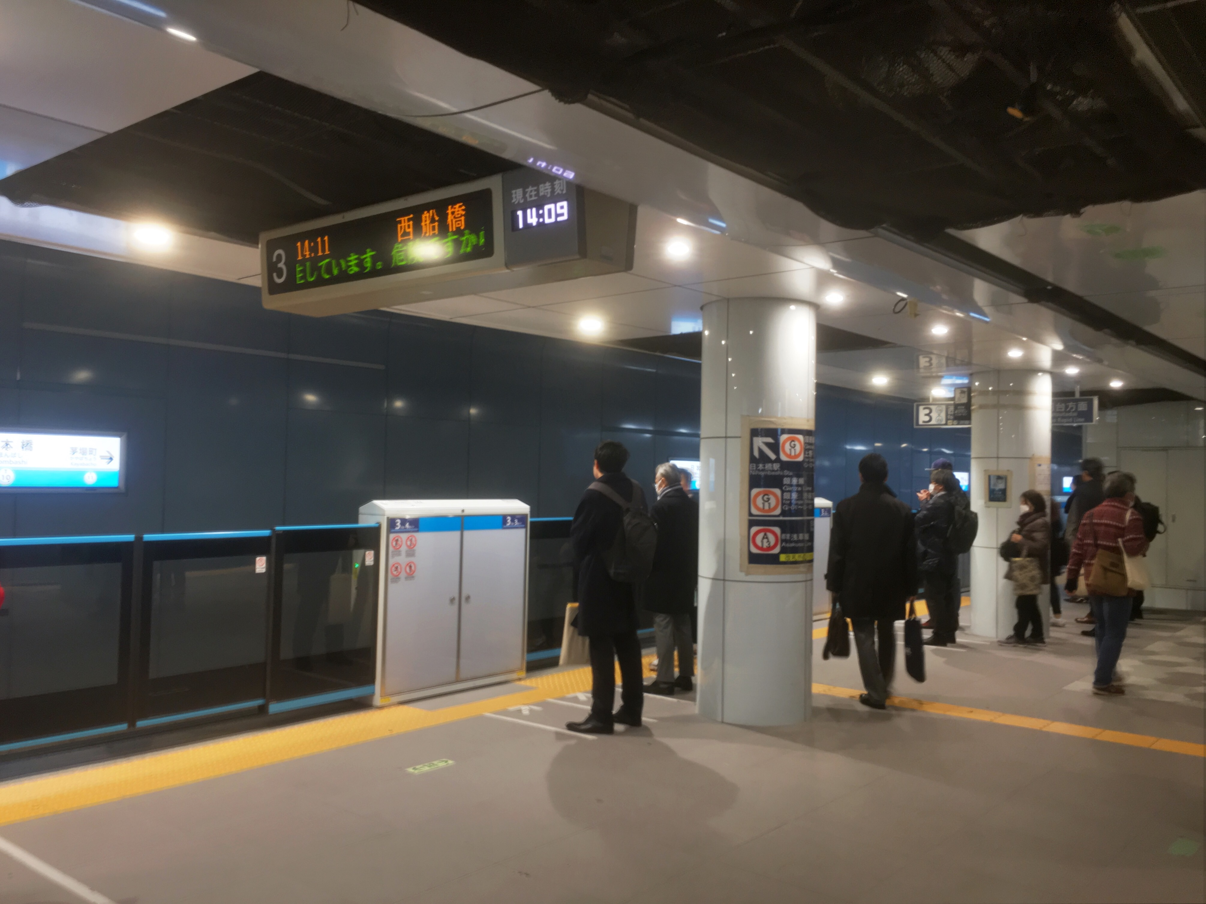 日本橋駅のホーム (Nihombashi Station platforms)